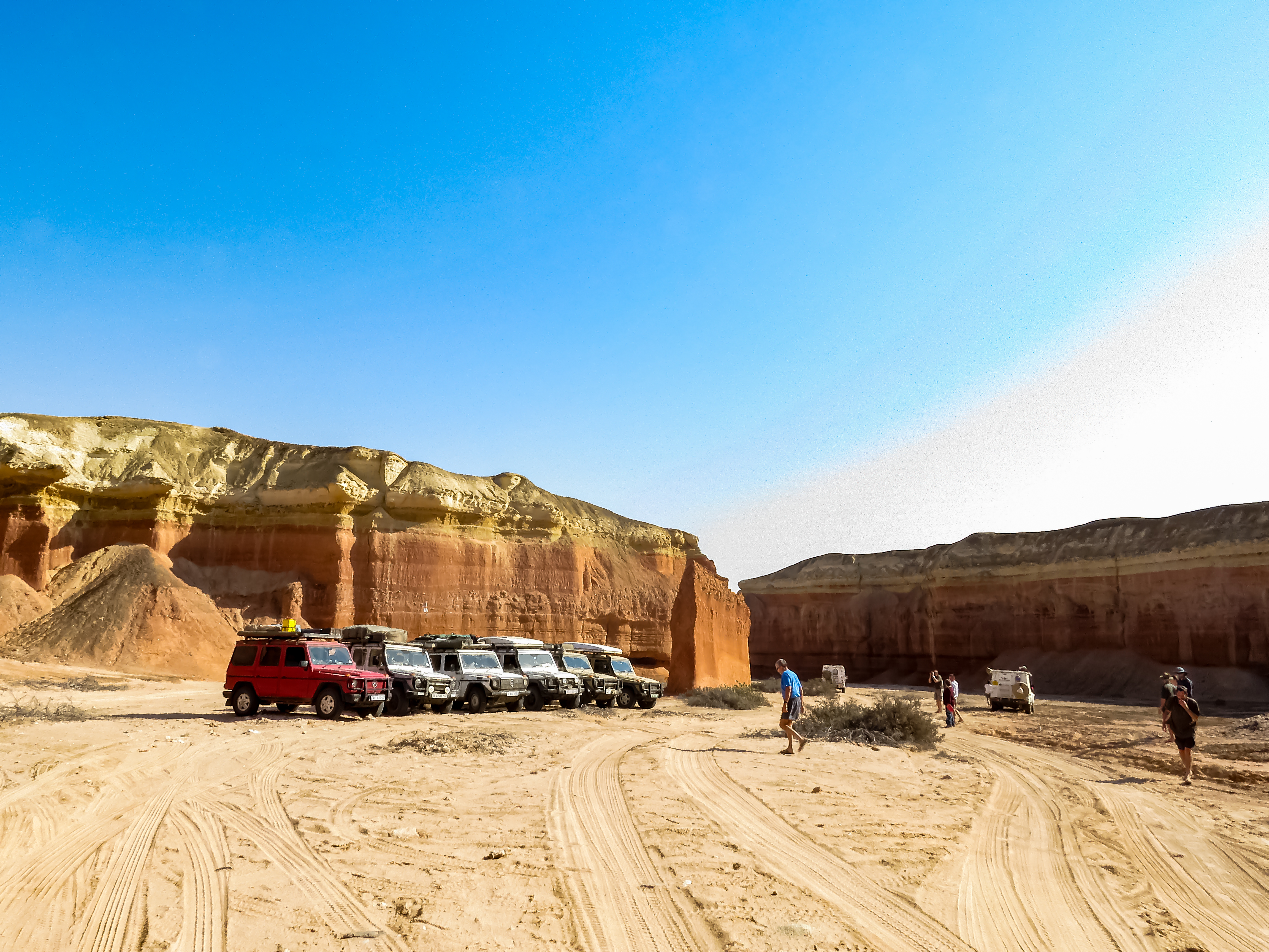 Bakkies in the flinstone valley This is an image with the theme "Africa on the Move or Transport" from: Angola